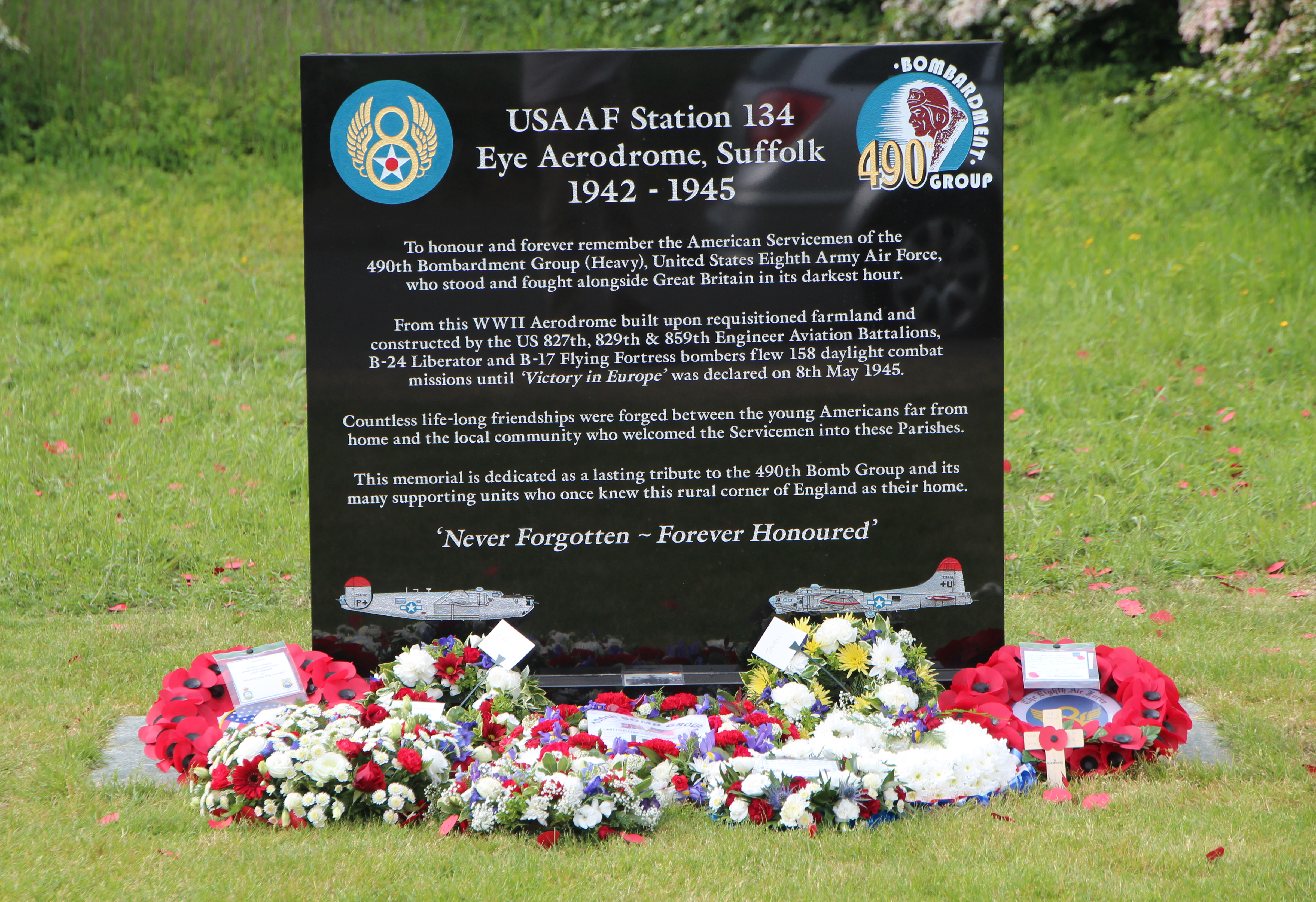 The memorial dedicated on May 29, 2016. Photo courtesy of Flywheel Photography.